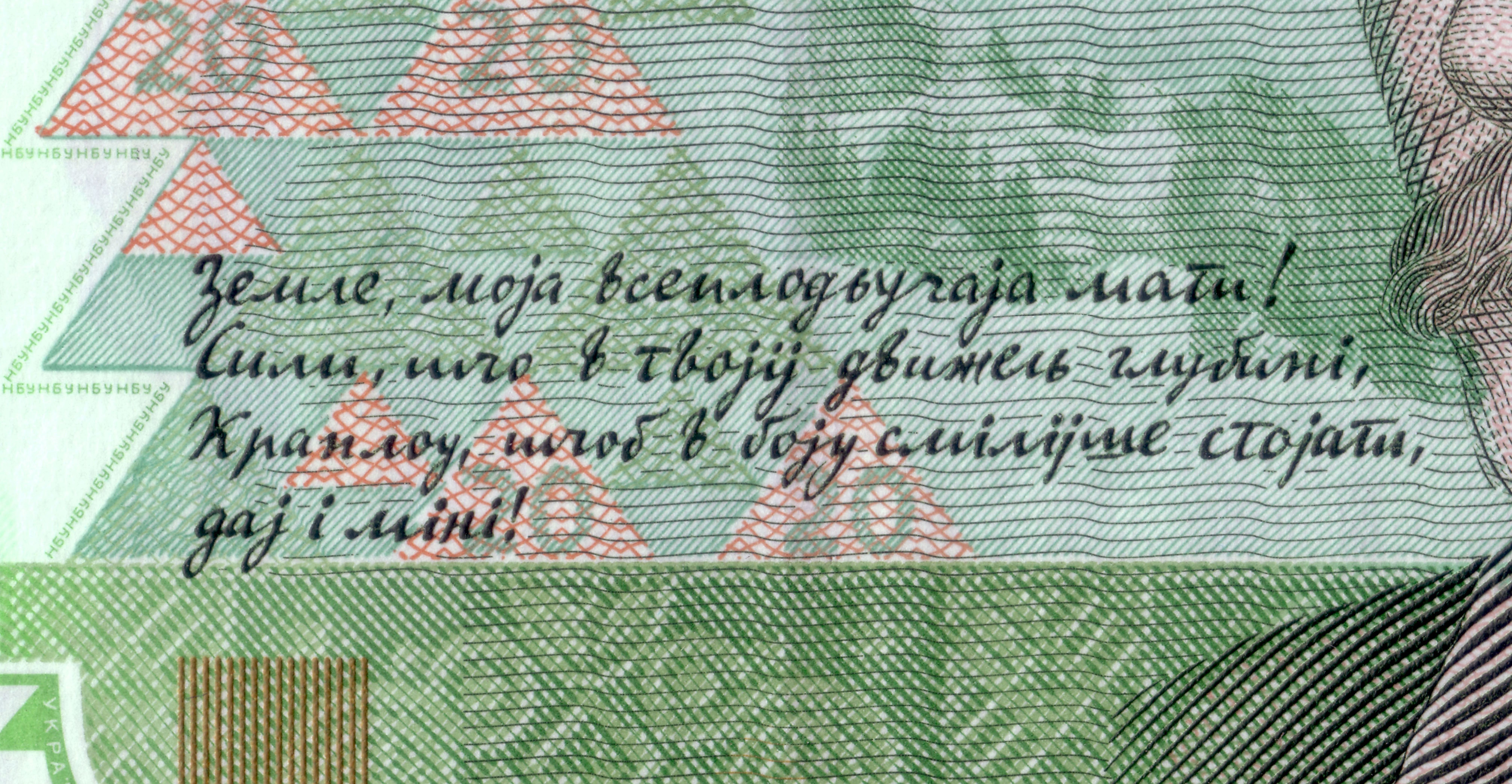 Detail from the 2003 twenty-hryvnia note, showing the fragment of Franko's handwriting in the Drahomanivka alphabet.